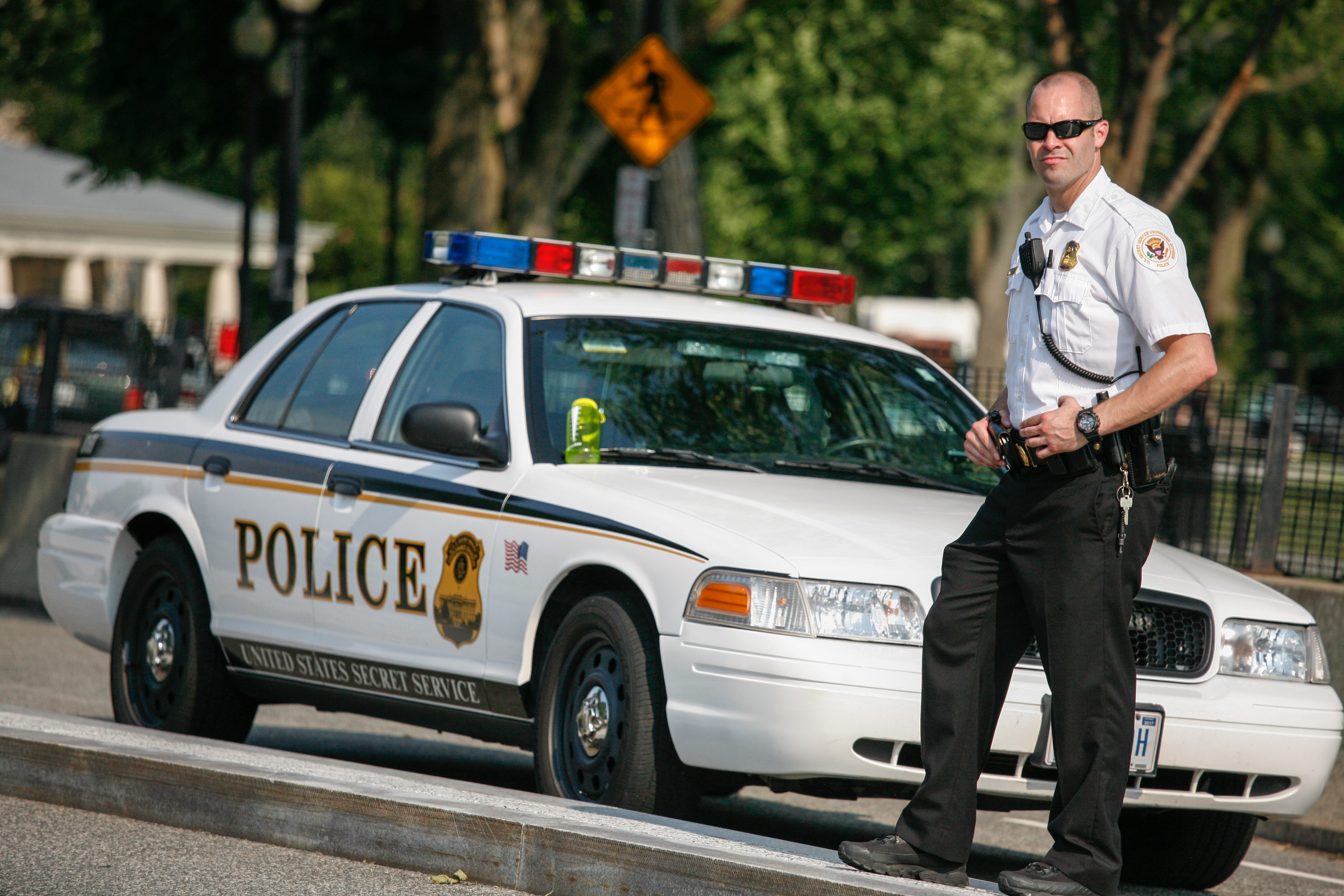 Secret Service at the White House